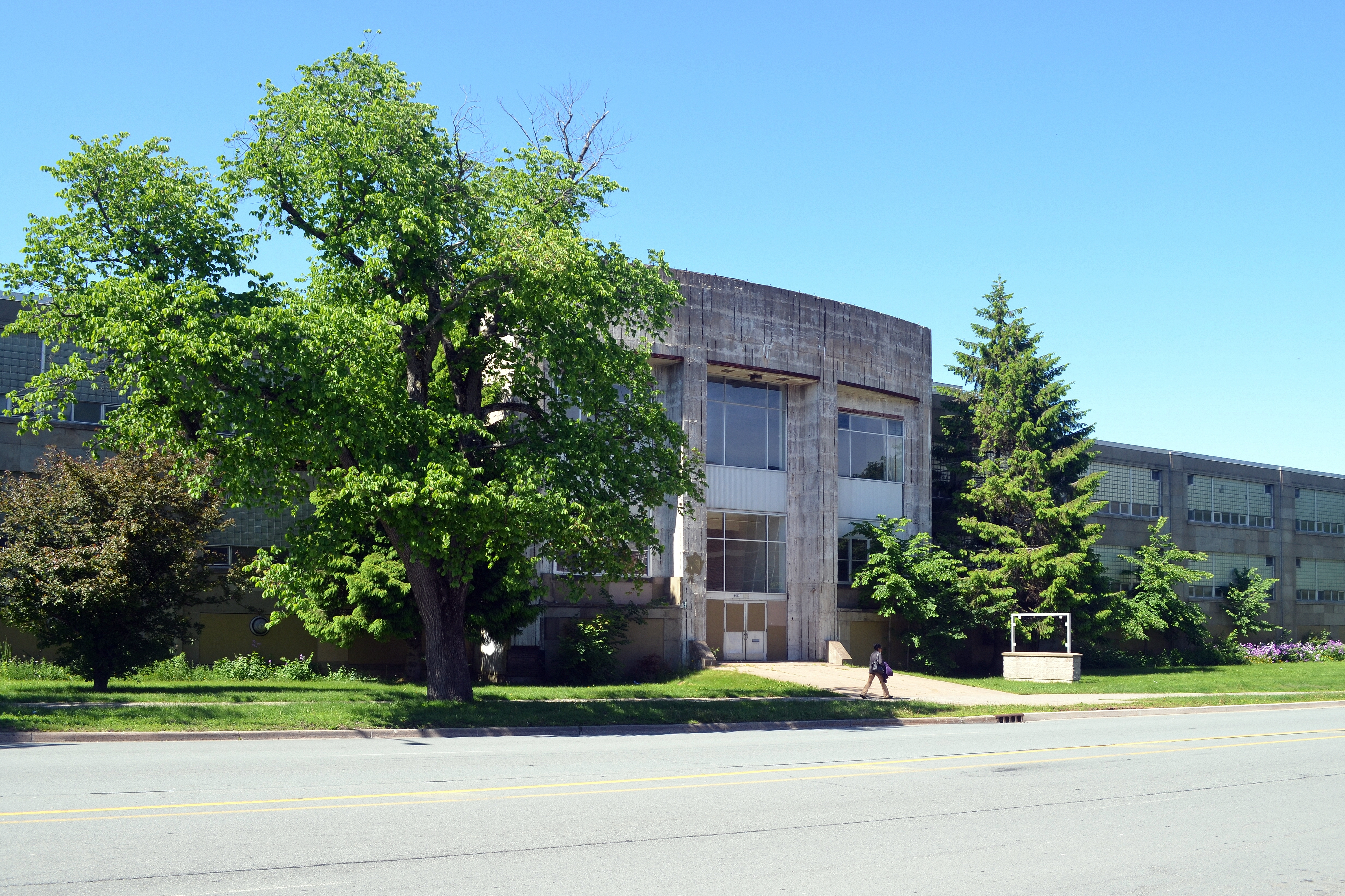 The abandoned St. Patricks High School, Quinpool Road, Halifax, Nova Scotia.